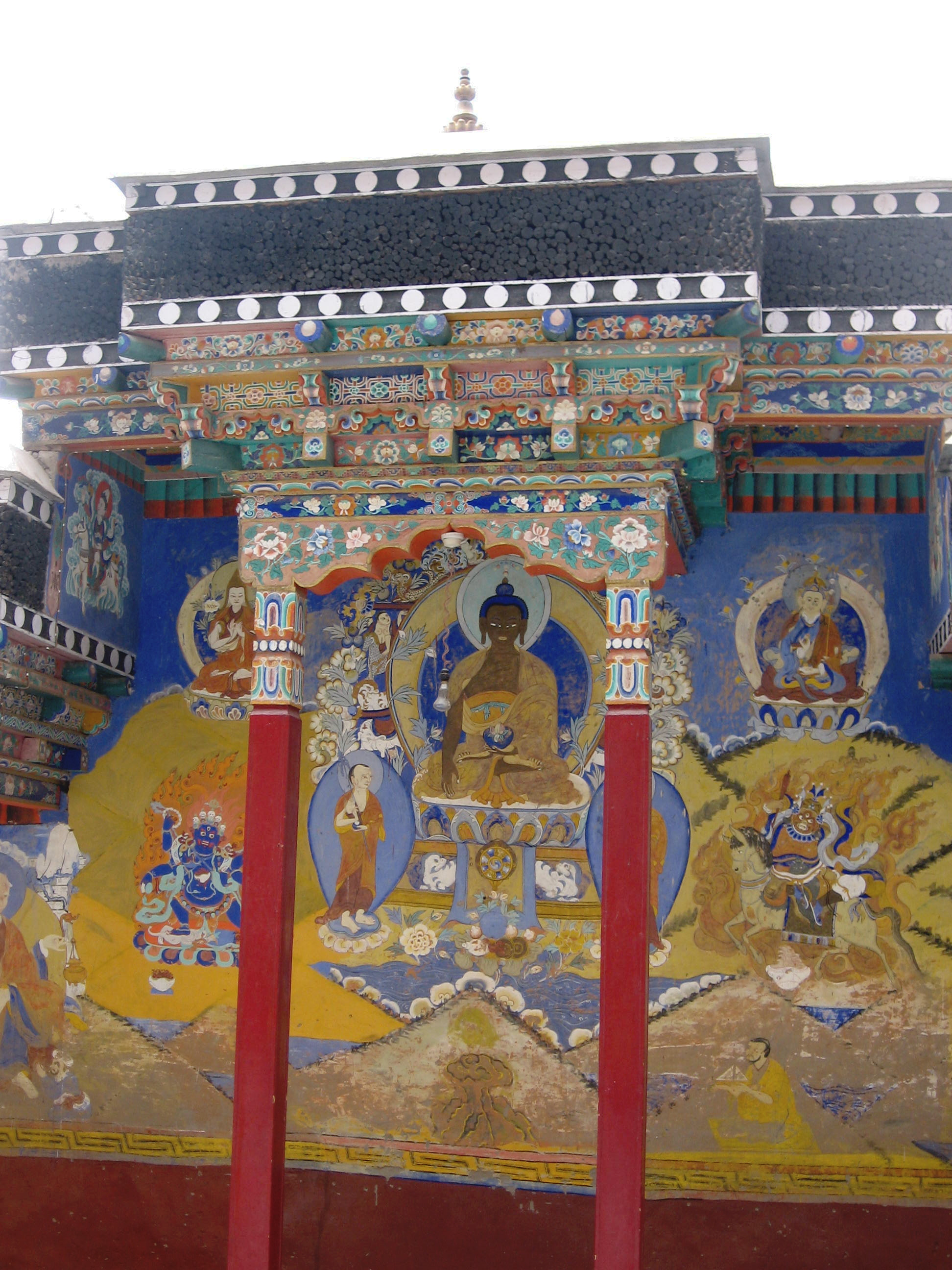 Tsong_khapa_-shakymuni-rinpoche-shri_devi-mahakala, Thikse monastry courtyard